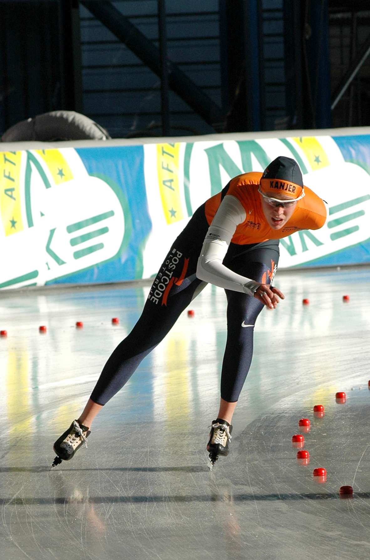 Wieteke Cramer, Dutch speedskater, Utrecht